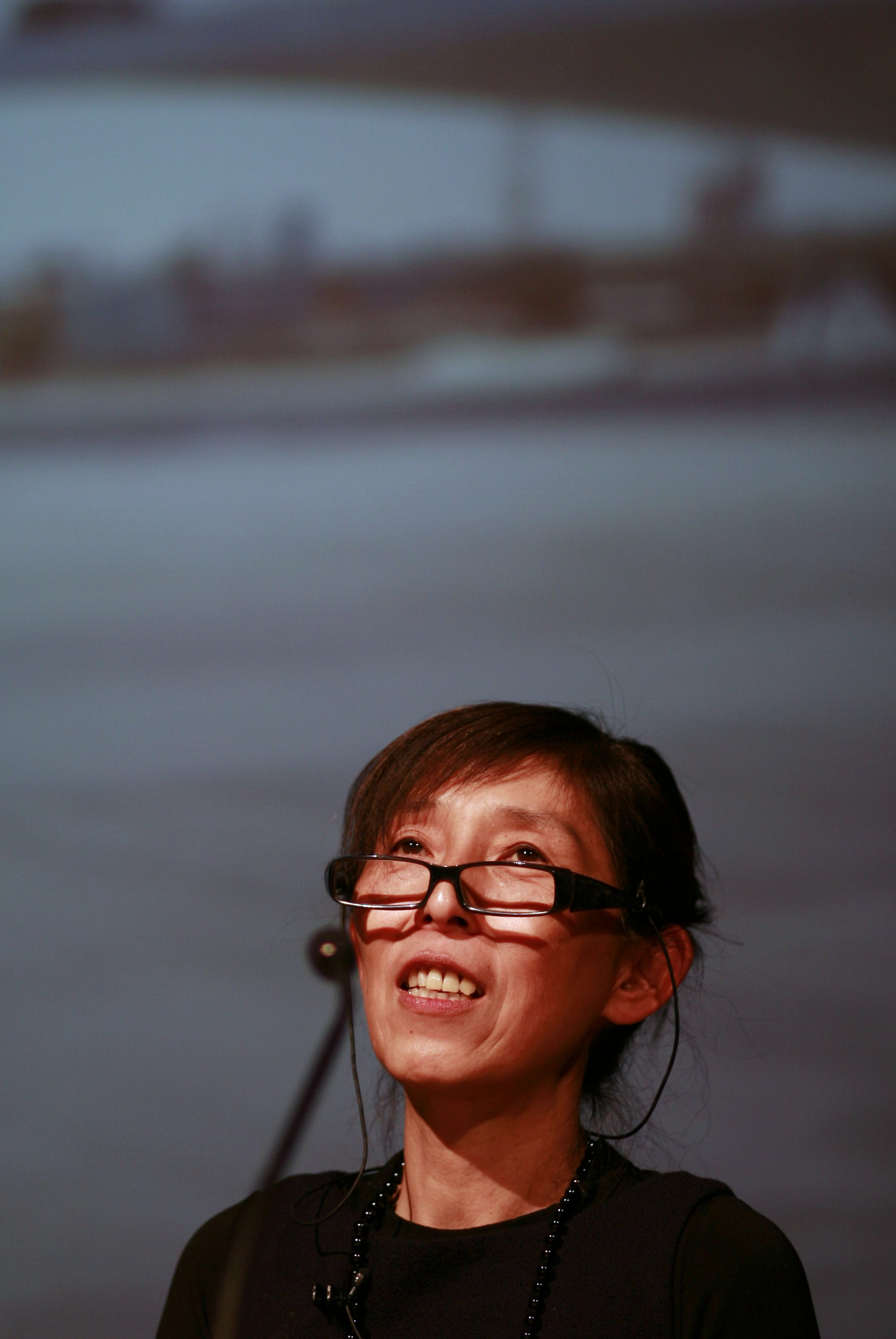 Kazuyo Sejima